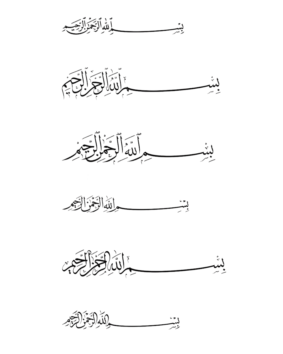 Six arabic scripts (arab. al-aqlam al-sittah, pers. aqlam-e sitta), top down: naskh, thuluth, muhaqqaq, rayhan, tawqi' and riqa'. Source: Maryam D. Ekhtiar How to Read Islamic Calligraphy, p. 29